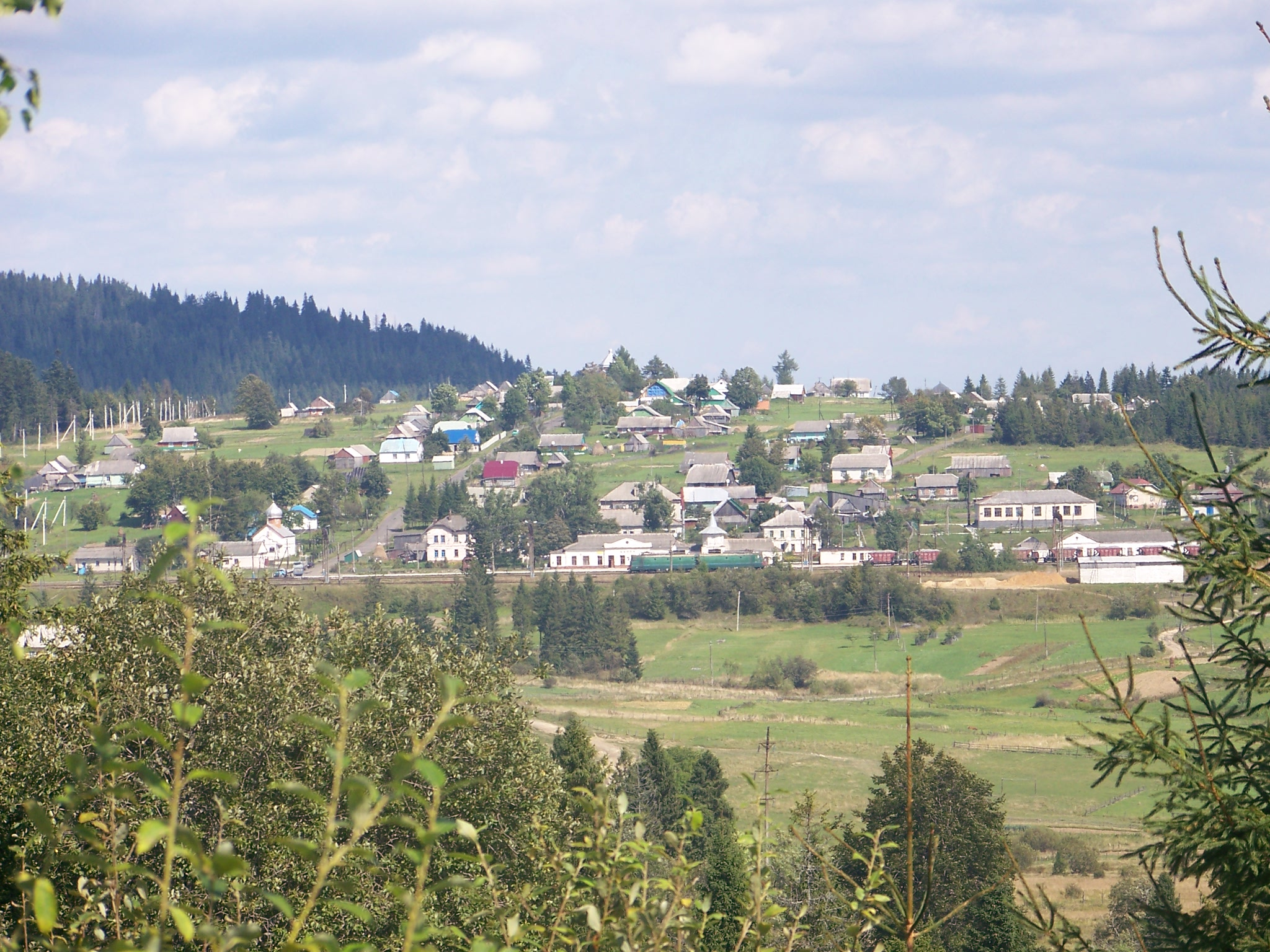 Ukrainian village Sianki. View from Polish side of border.